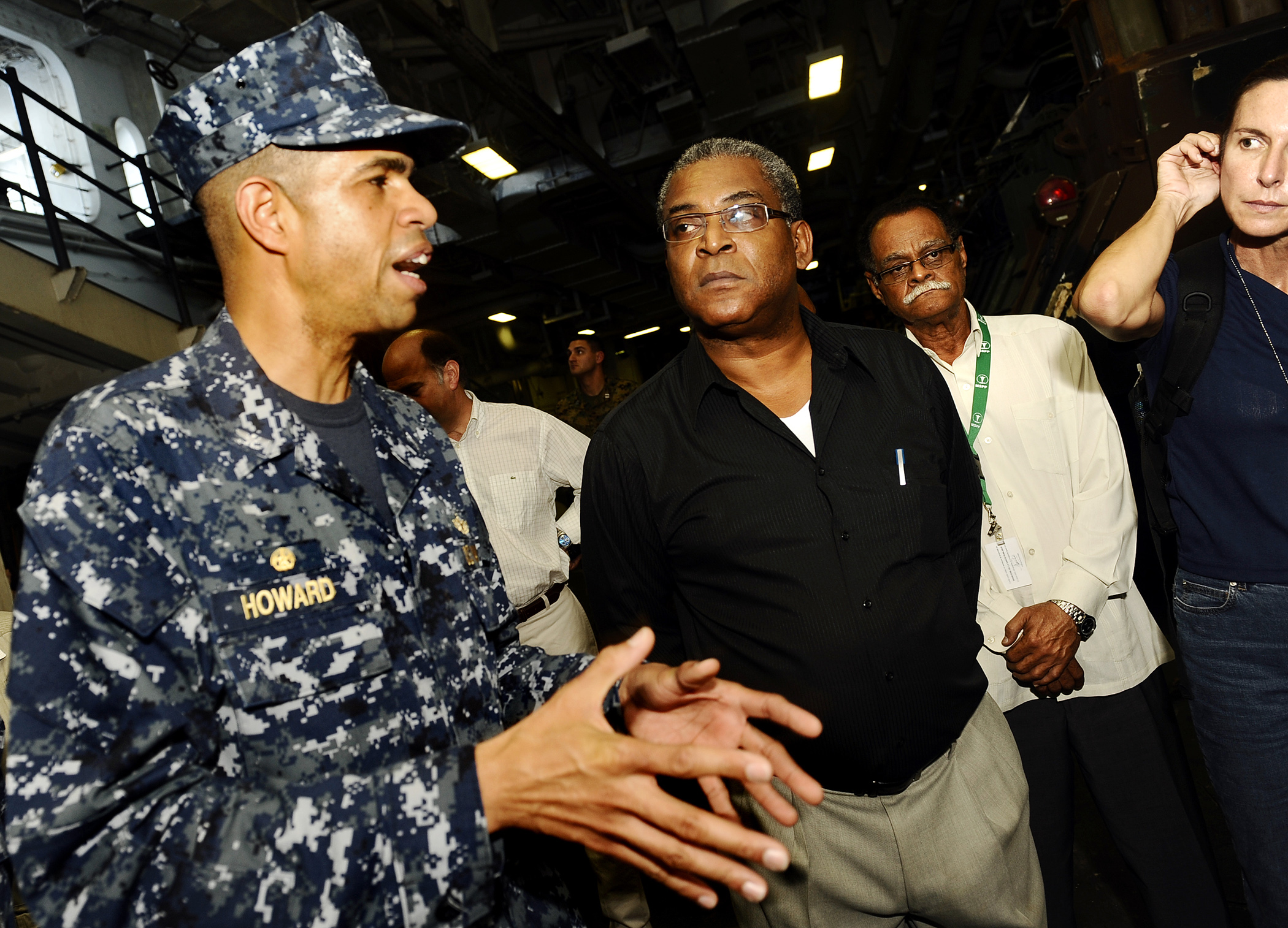 BAIE DE GRAND GOAVE, Haiti (Feb. 6, 2010) Capt. Sam Howard, commanding officer of the amphibious assault ship USS Bataan (LHD 5), explains his ship's well deck capabilities to Haitian Prime Minister Jean-Max Bellerive during a tour of the ship off the coast of Haiti. Bataan is conducting humanitarian and disaster relief operations as part of Operation Unified Response after a 7.0 magnitude earthquake caused severe damage in and around Port-au-Prince, Haiti Jan. 12. (U.S. Navy photo by Mass Communication Specialist 2nd Class Kristopher Wilson/Released)